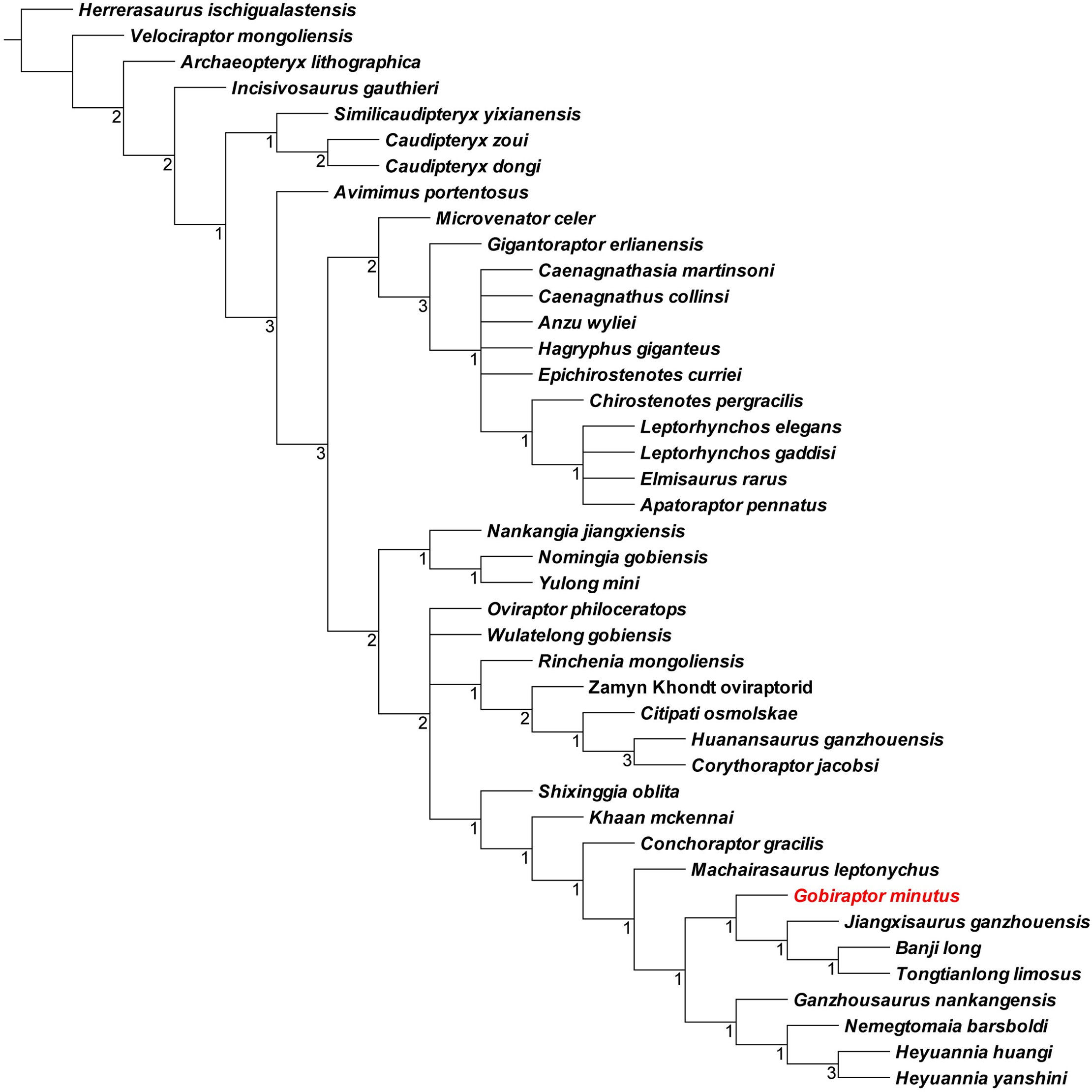 Strict consensus (CI: 0.448, RI: 0.647) of 24 most parsimonious trees of 652 steps obtained by TNT based on the data matrix of 42 taxa and 257 characters. Numbers at each node indicate Bremer support values.